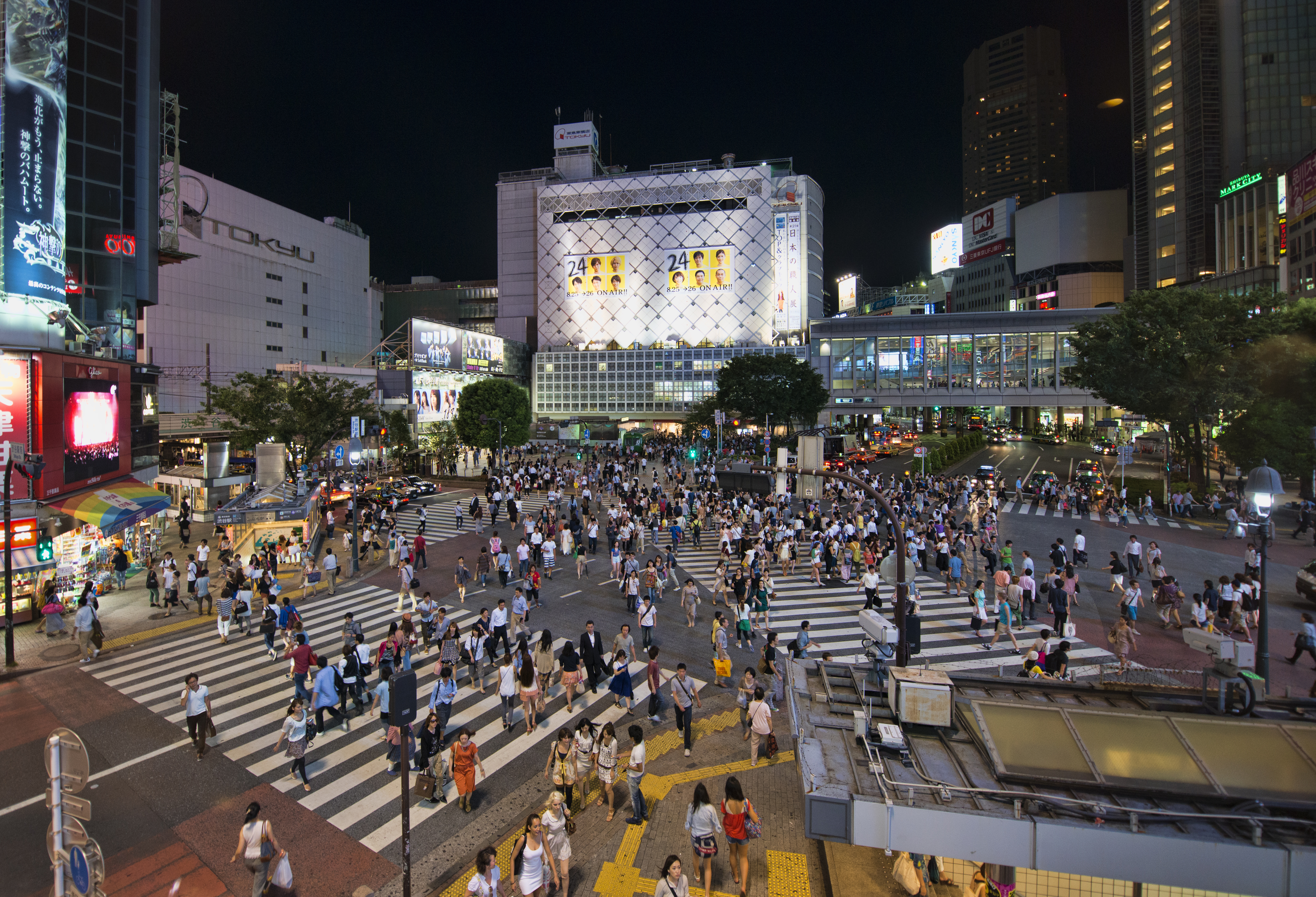 shibuya crossing japan tokyo 2012 night